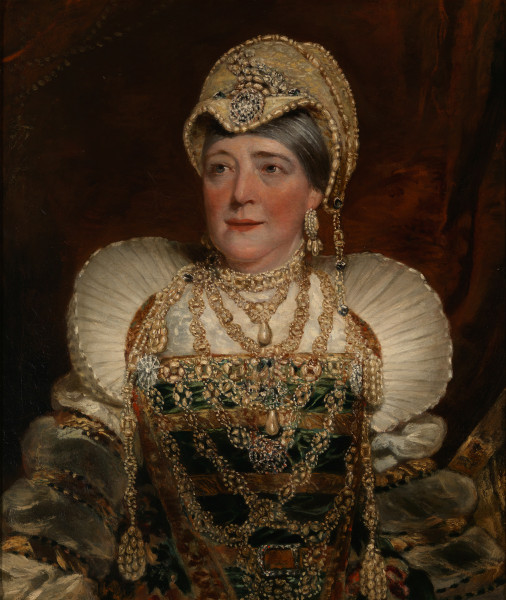 Mary Ann Davenport Burnell as Lady Denny : Henry VIII